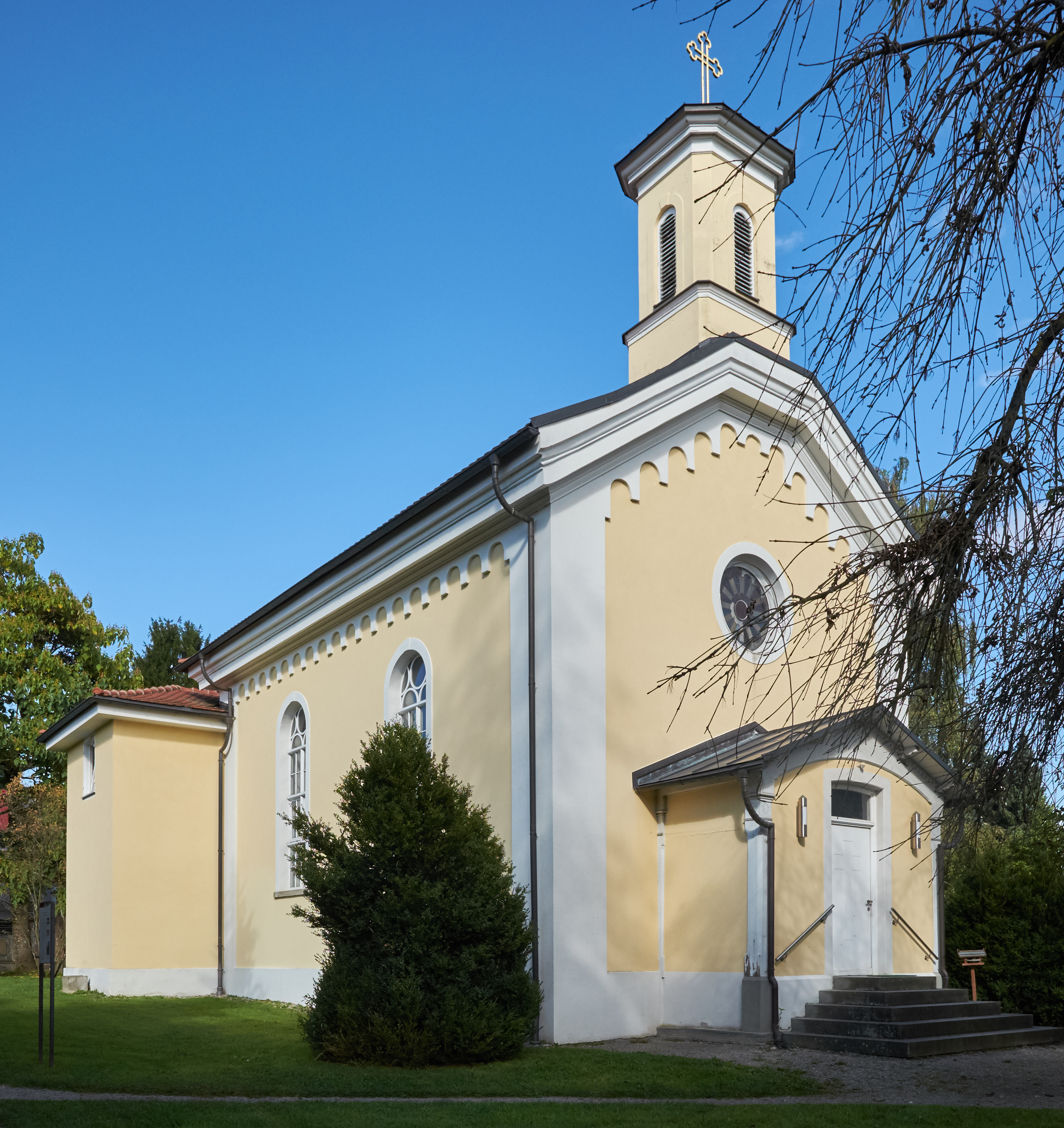 New chapel in the old cemetary Aeschach, Lindau-Aeschach, district Lindau, Bavaria, Germany